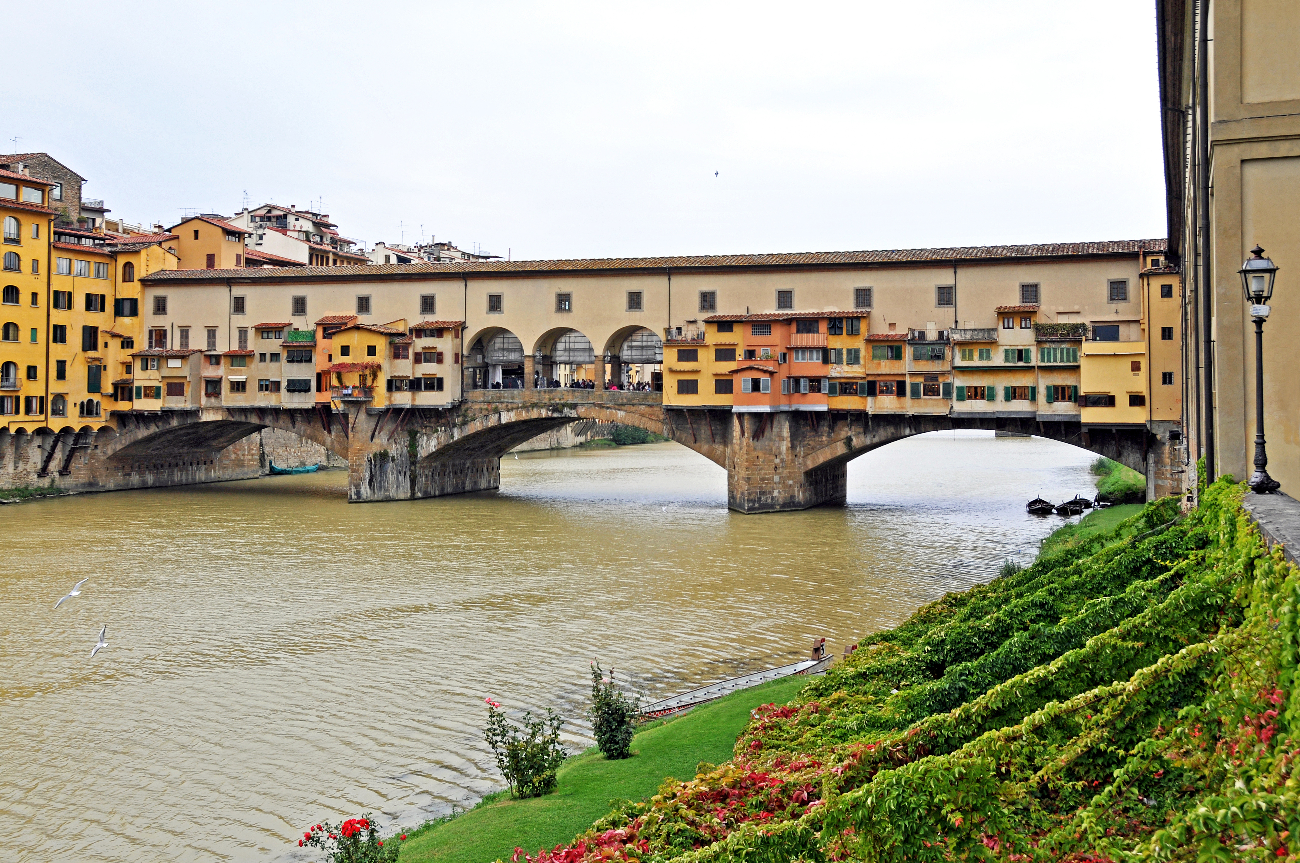 The Ponte Vecchio (Old Bridge) is a Medieval bridge over the Arno River, in Florence, noted for still having shops built along it, as was once common. Butchers initially occupied the shops; the present tenants are jewellers, art dealers and souvenir sellers. It is said that the economic concept of bankruptcy originated here: when a merchant could not pay his debts, the table on which he sold his wares (the banco) was physically broken (rotto) by soldiers, and this practice was called "bancorotto" (broken table; possibly it can come from "banca rotta" which means "broken bank"). Not having a table anymore, the merchant was not able to sell anything.